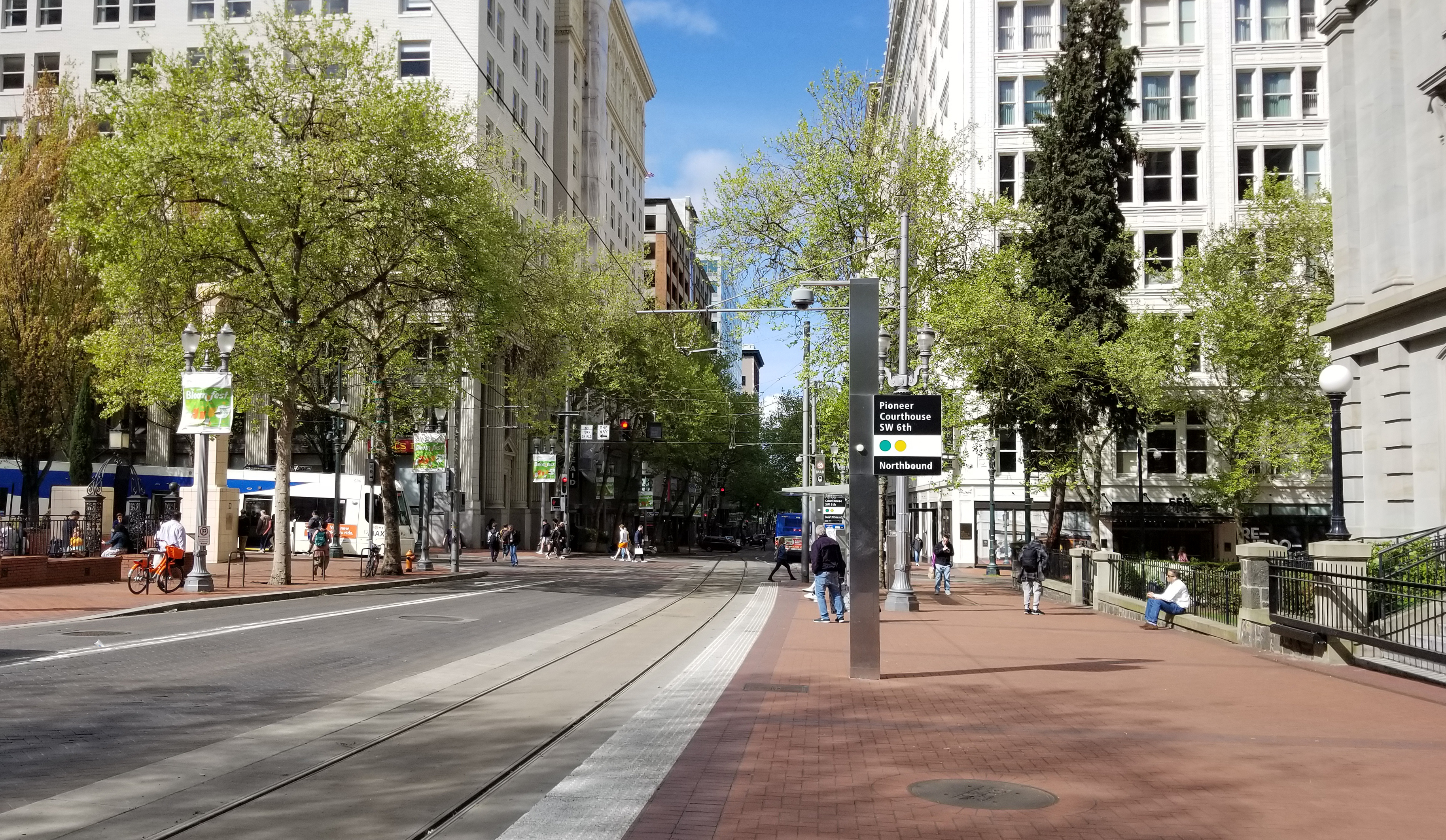 The platform of Pioneer Courthouse/Southwest 6th station of the MAX Light Rail system facing north. The station occupies the front of the Pioneer Courthouse and is across the street from Pioneer Courthouse Square on the Portland Transit Mall. It is served by northbound MAX Green and Yellow trains.